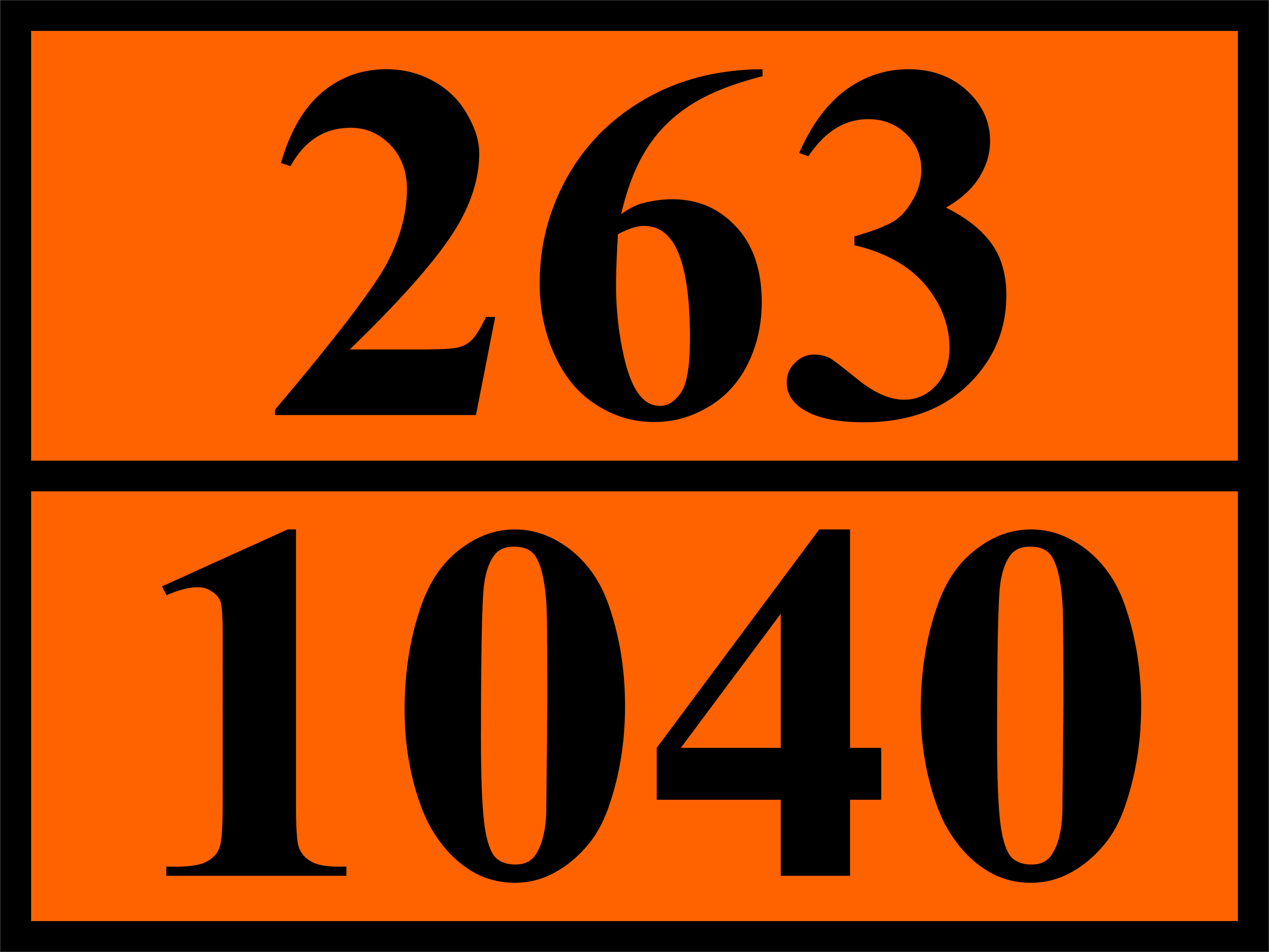 Ethylene oxide, ADR table